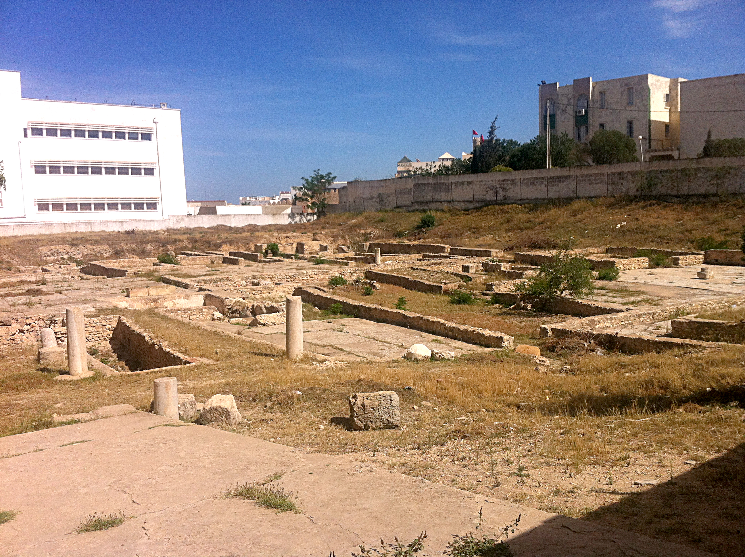 This Photo has been taken with a iPhone 4.